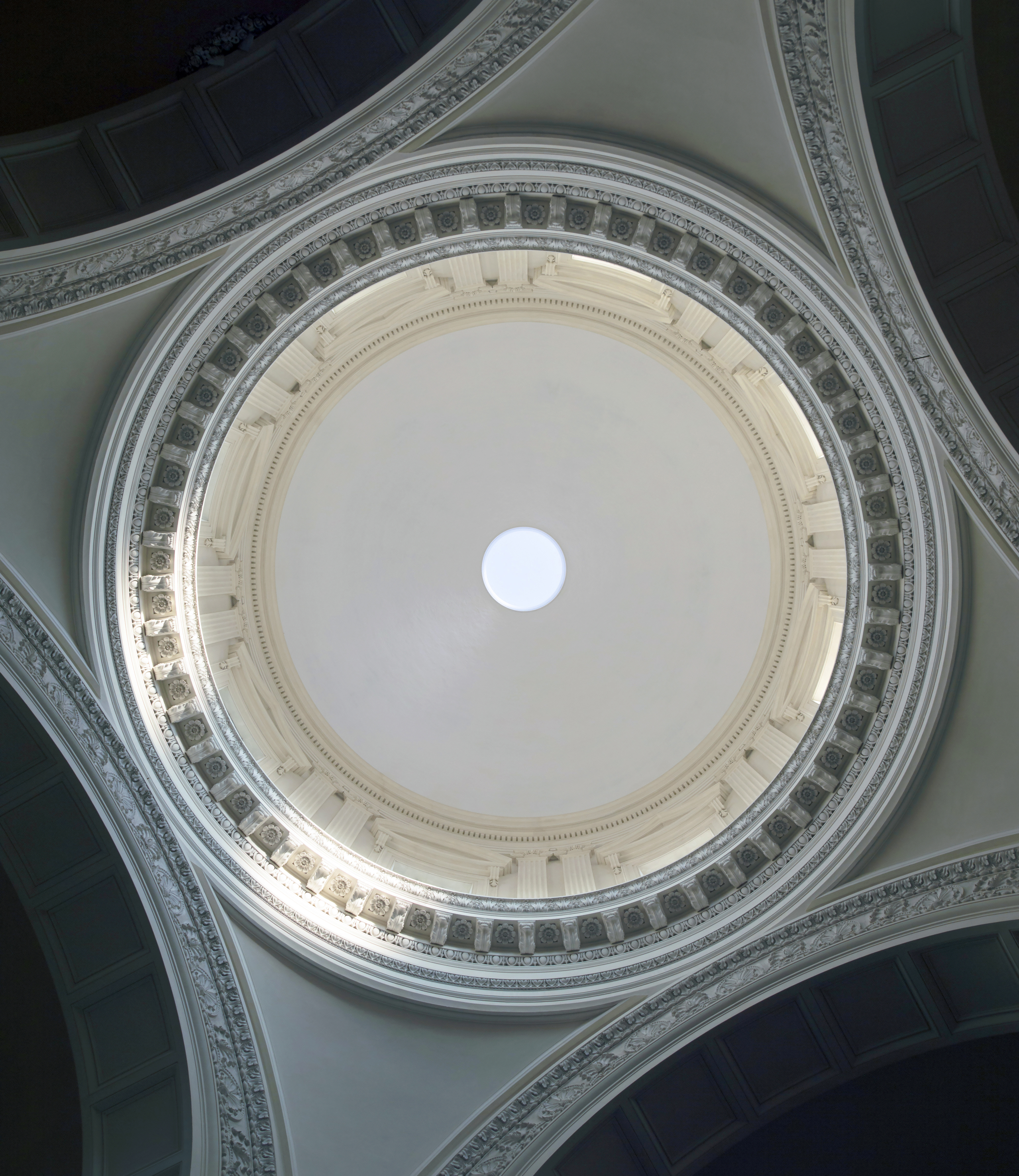 Dome of the church of San Tolomeo (Nepi)